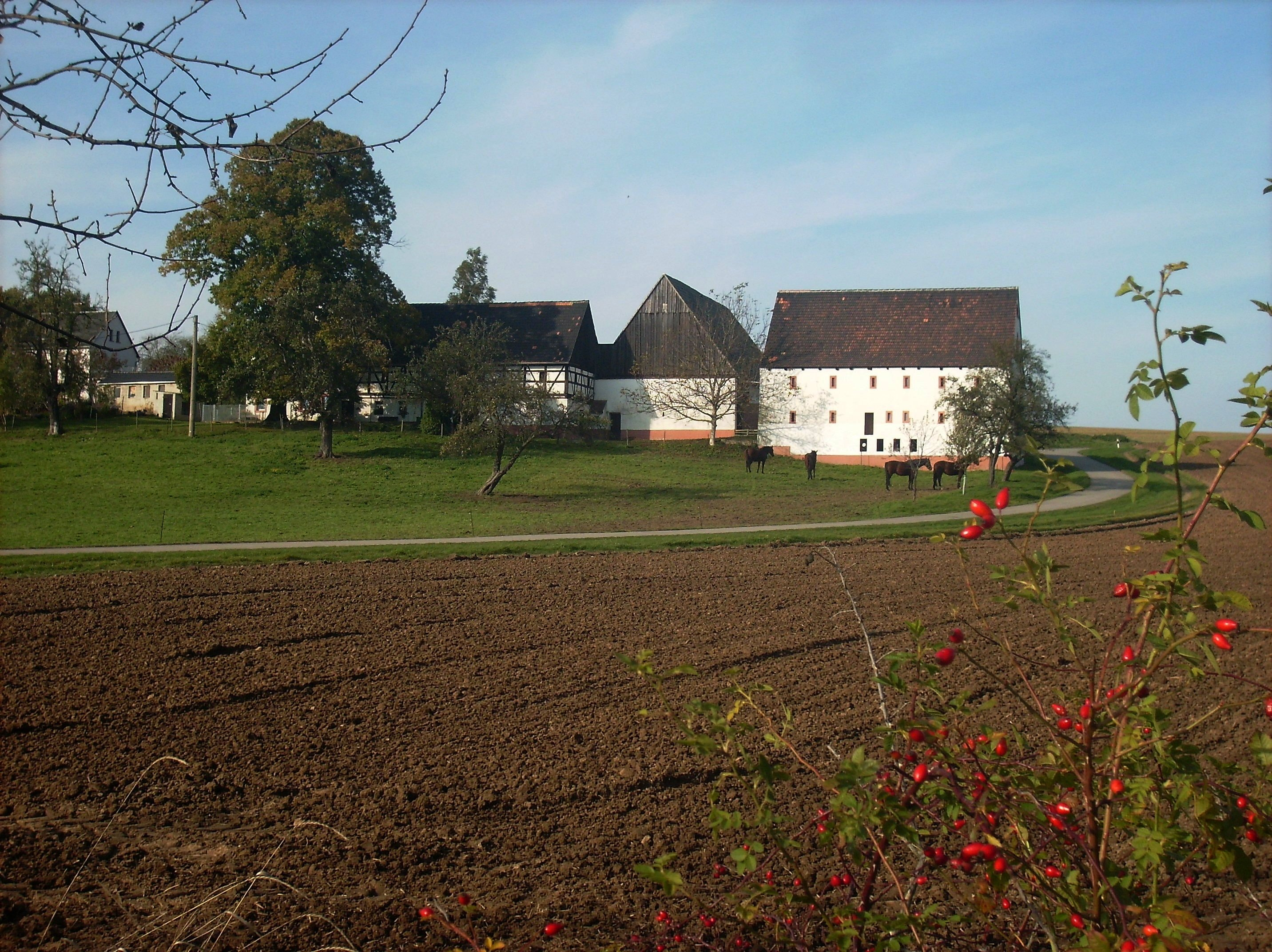 Farmstead in Walditz (Kohren-Sahlis, Leipzig district, Saxony)